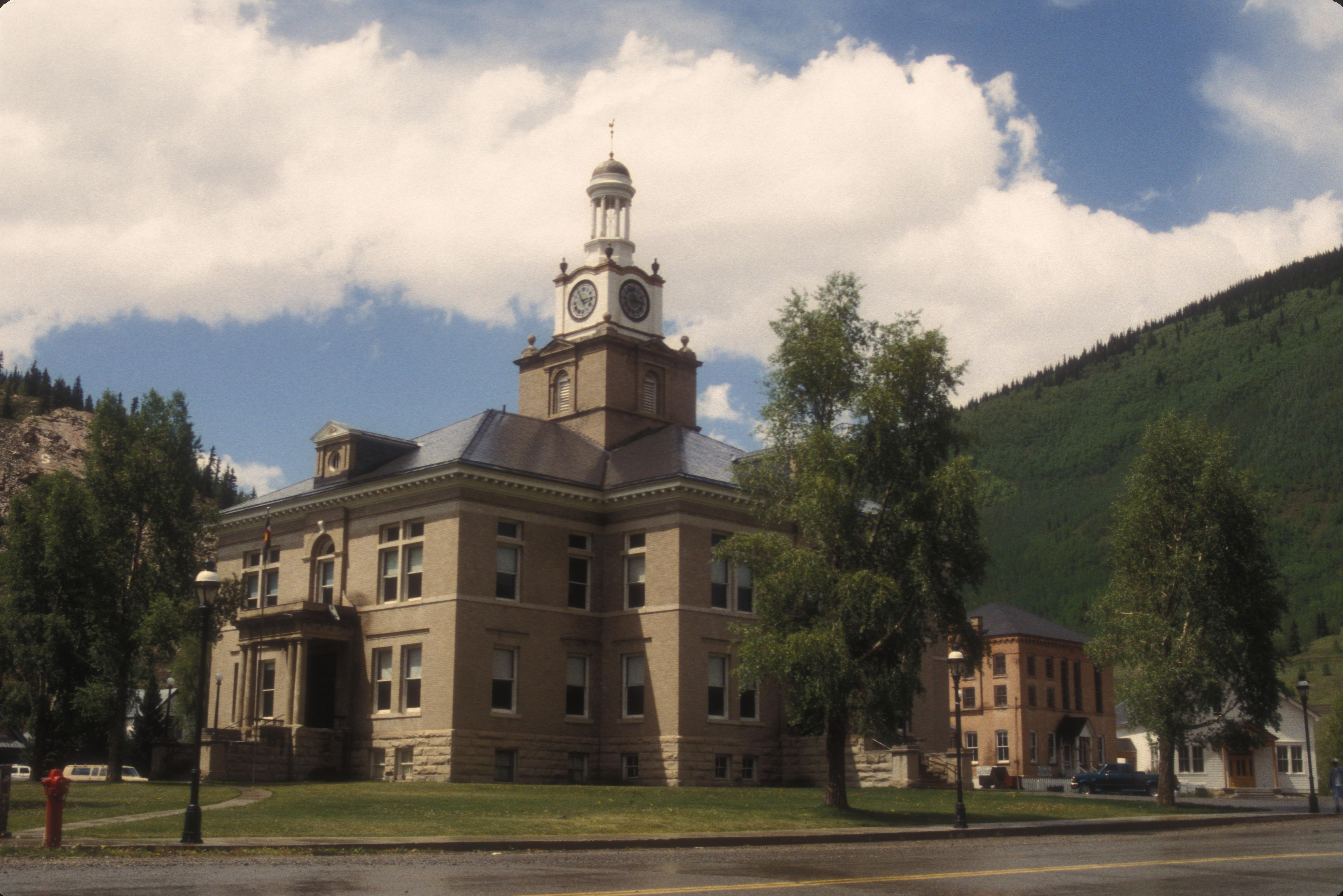 Courthouse dates from 1907, and the jail is located just to the right of the courthouse in the picture.